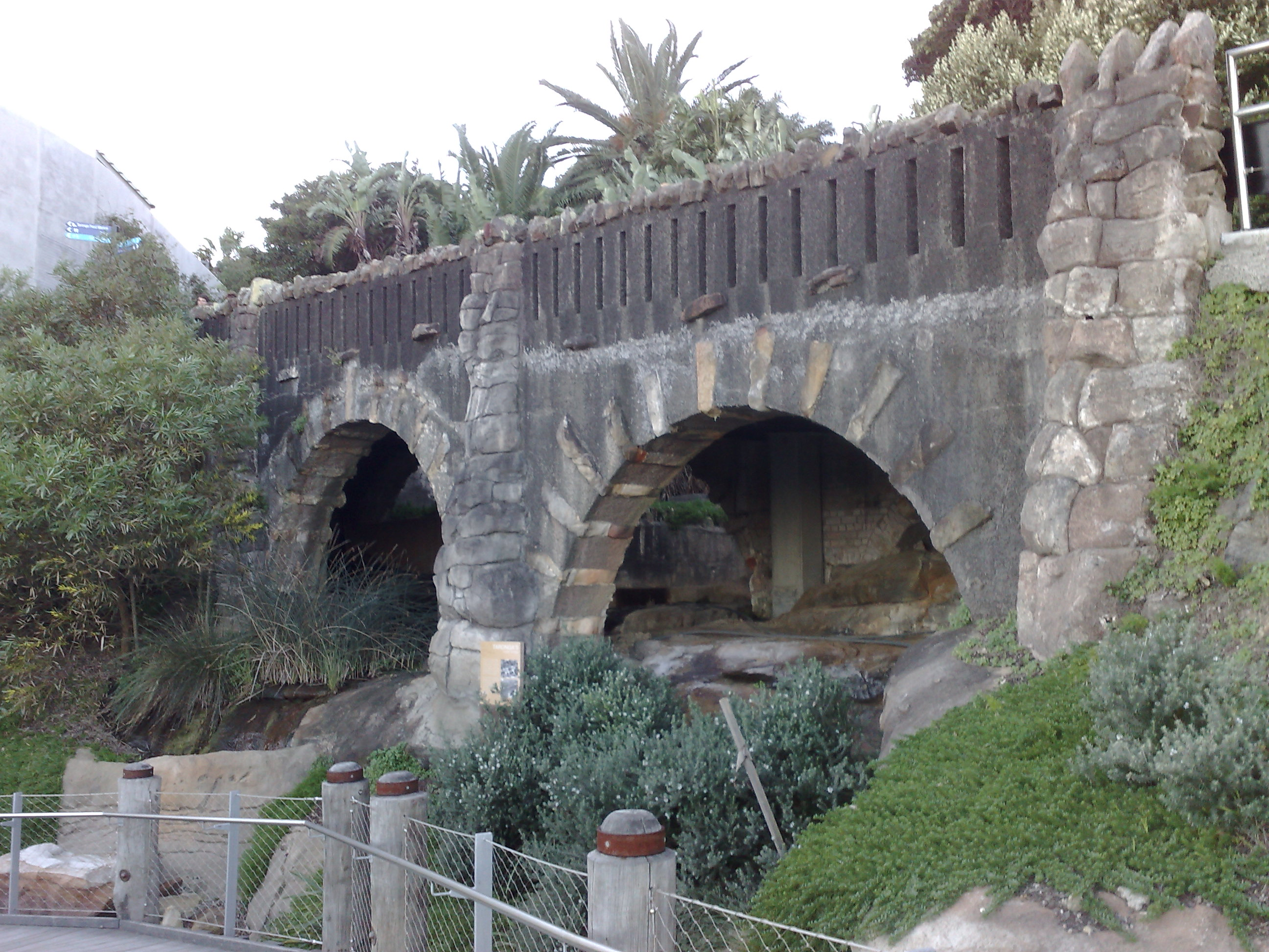 A photograph of Rustic Bridge in Taronga Zoo